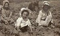 [Sugar beet workers, Sugar City, Colorado. Mary, six years, Lucy, eight, Ethel, ten. Family has been here ten years. Children go to school in the winter. See Hine Report, Colorado Beet Workers, July 1915.] Location: [Sugar City, Colorado]